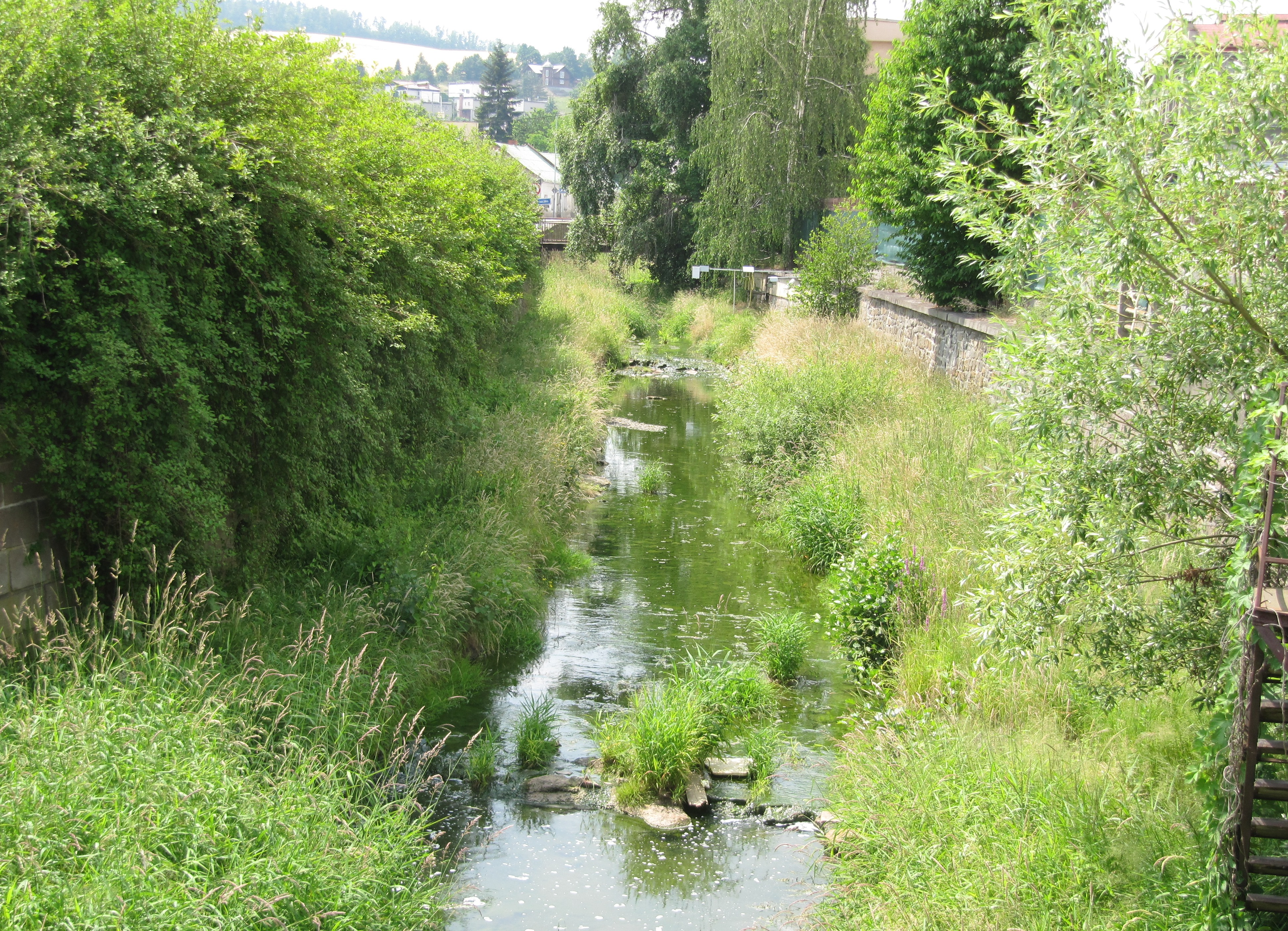 Bílovec, Nový Jičín District, Czech Republic.